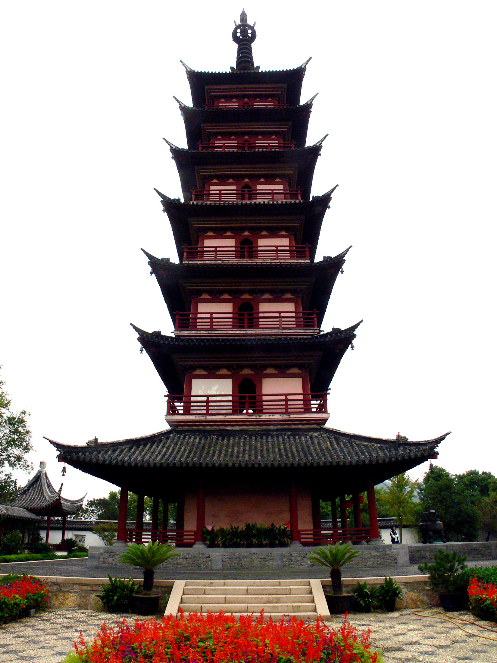 Tang dynasty style square pagoda in Guang Fu town of Suzhou city, first built between 535-546, burnt down in 846, rebuilt in 860-874 of Tang dynasty